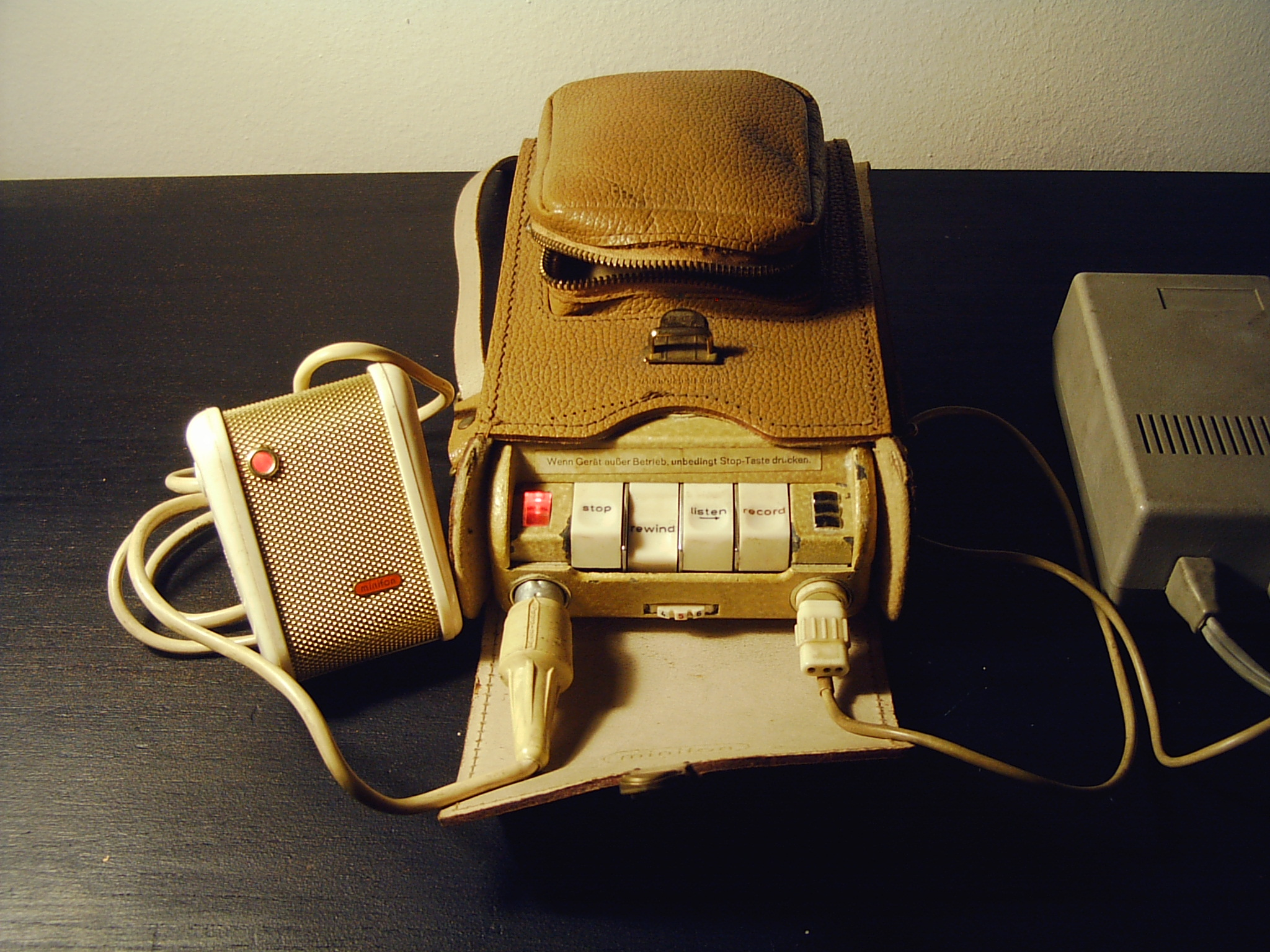 Protona Minifon Attaché, production period 1960-1962, first dictaphone/cassette tape recorder; red lights indicate end-of-tape